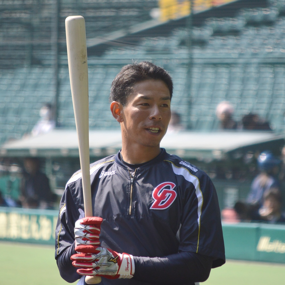 Shigeo Yanagida, infielder of the Chunichi Dragons, at Hanshin Koshien Stadium.